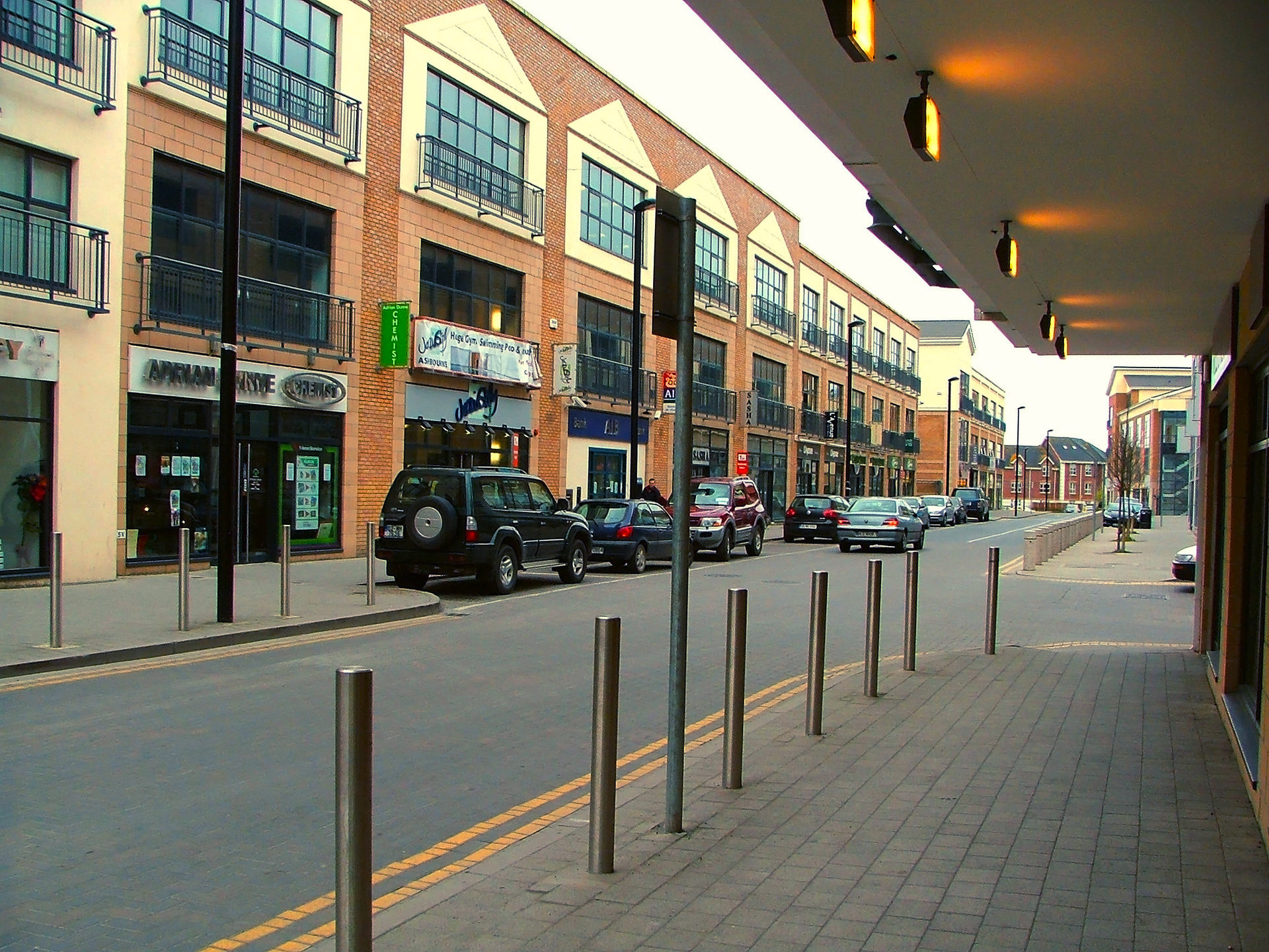 New Shopping District Ashbourne